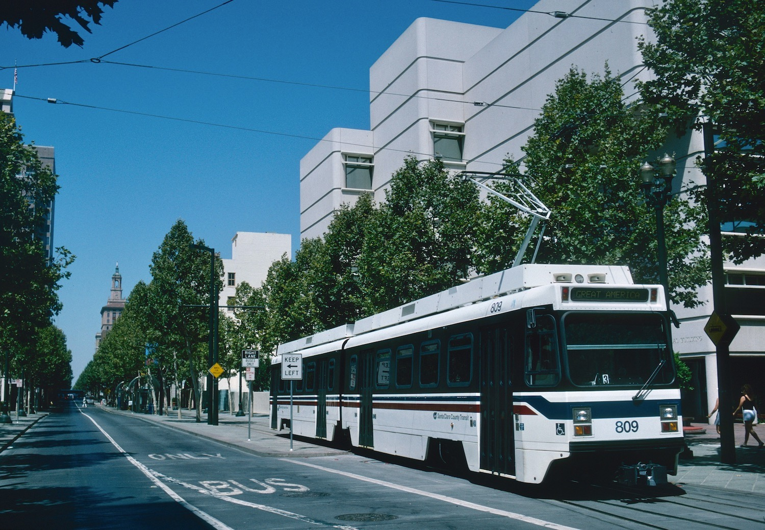 Santa Clara County Transit UTDC-built LRV (light rail vehicle) No. 809 in downtown San Jose, northbound on First Street just north of San Carlos Street. It is going away from the camera. (The Santa Clara County Transit District and its parent, the umbrella organization known as the Santa Clara County Transportation Agency, were replaced by the Santa Clara Valley Transportation Authority in 1995.)